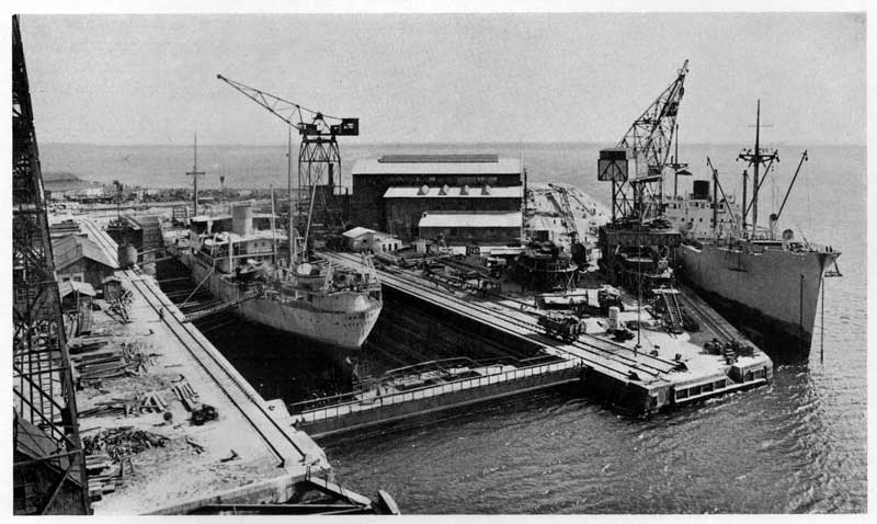 Oresundsvarvet shipyard. Landskrona, Sweden